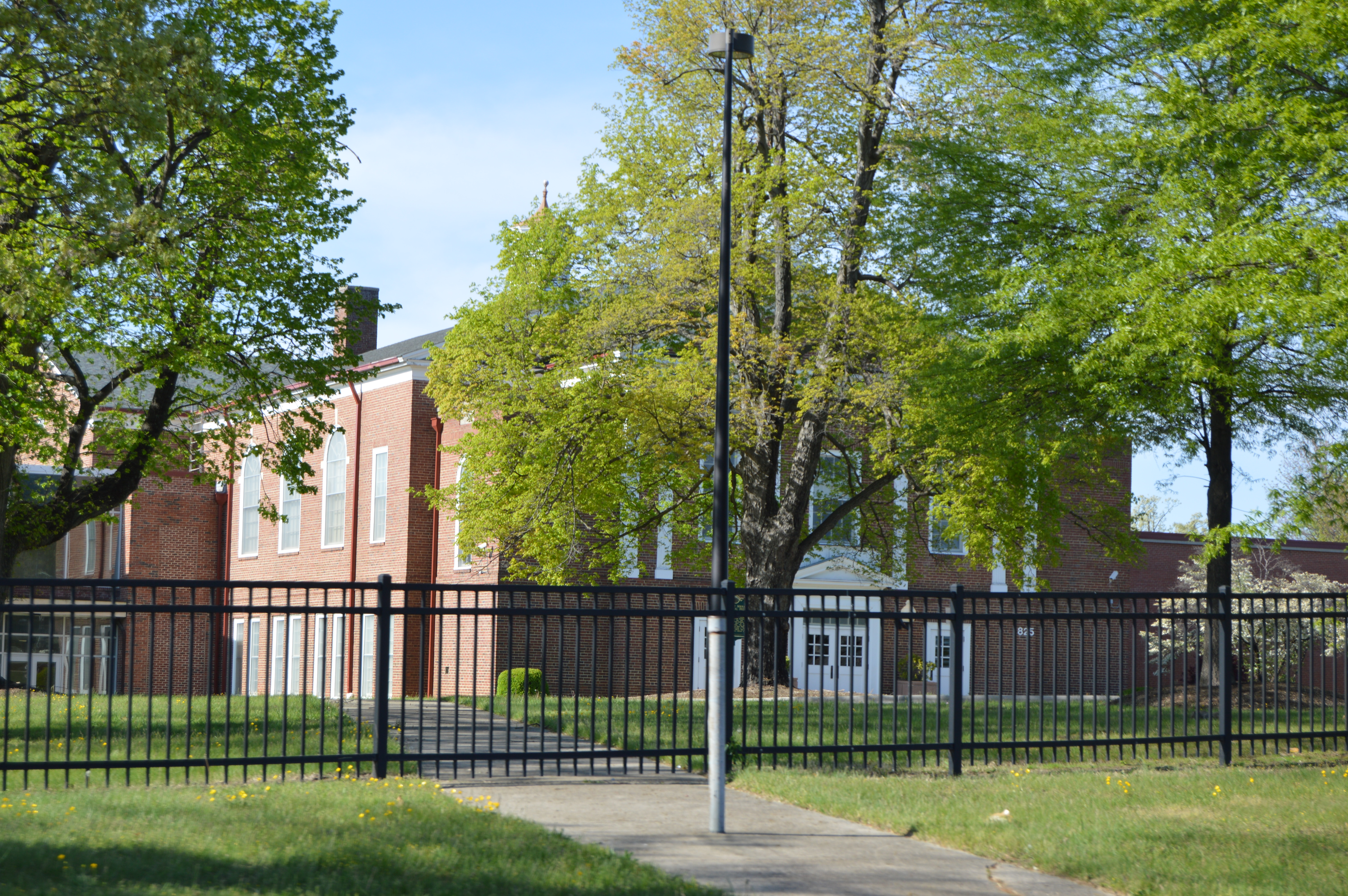 Front of the former William Penn High School, located on Washington Street in High Point, North Carolina, United States. Built in 1910, it is listed on the National Register of Historic Places.